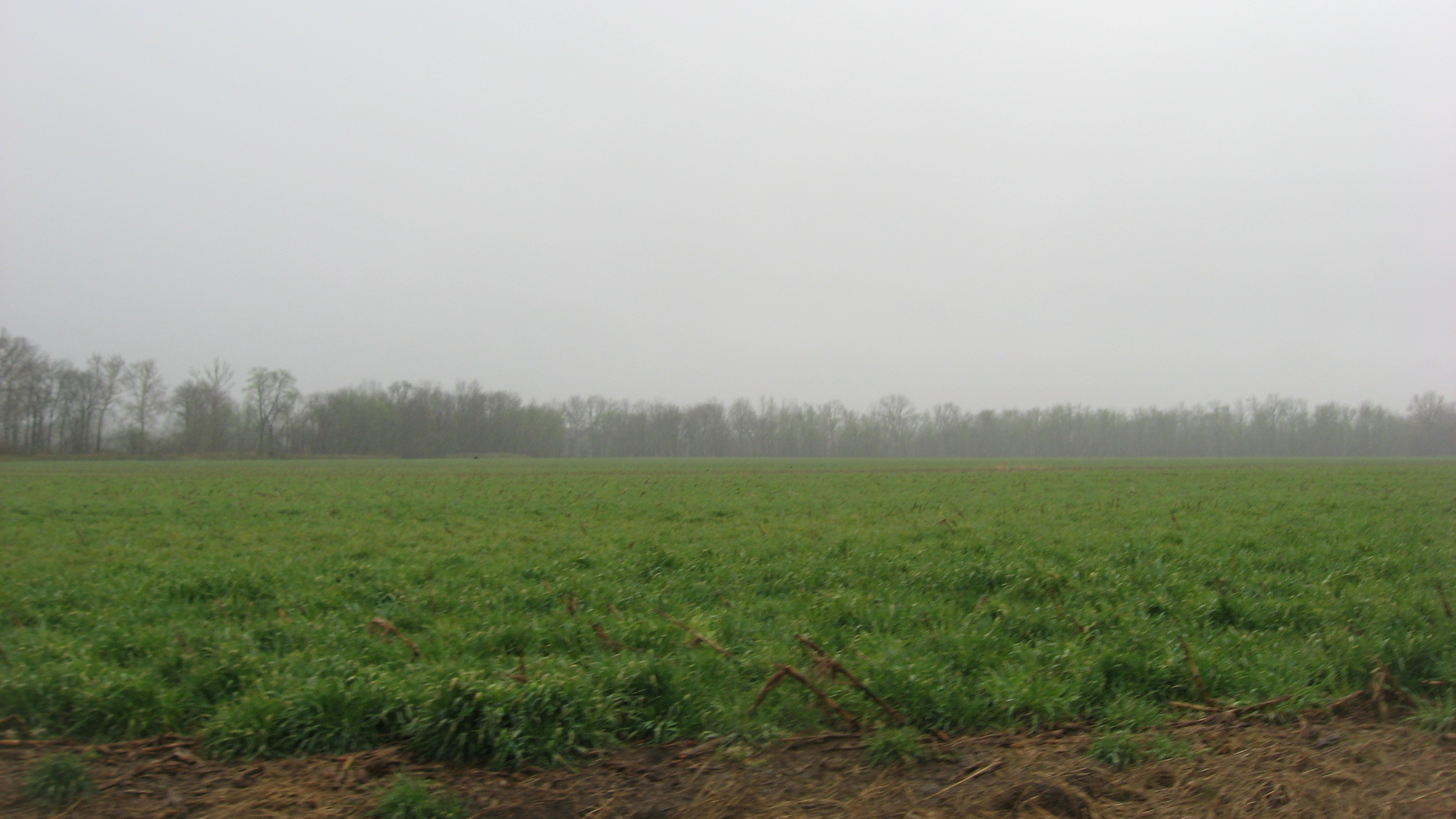 Looking over the Bieker-Wilson Village Site, located southeast of the junction of County Road 300N and 1650E east of New Haven in Emma Township, White County, Illinois, United States. As an important archaeological site, it is listed on the National Register of Historic Places.